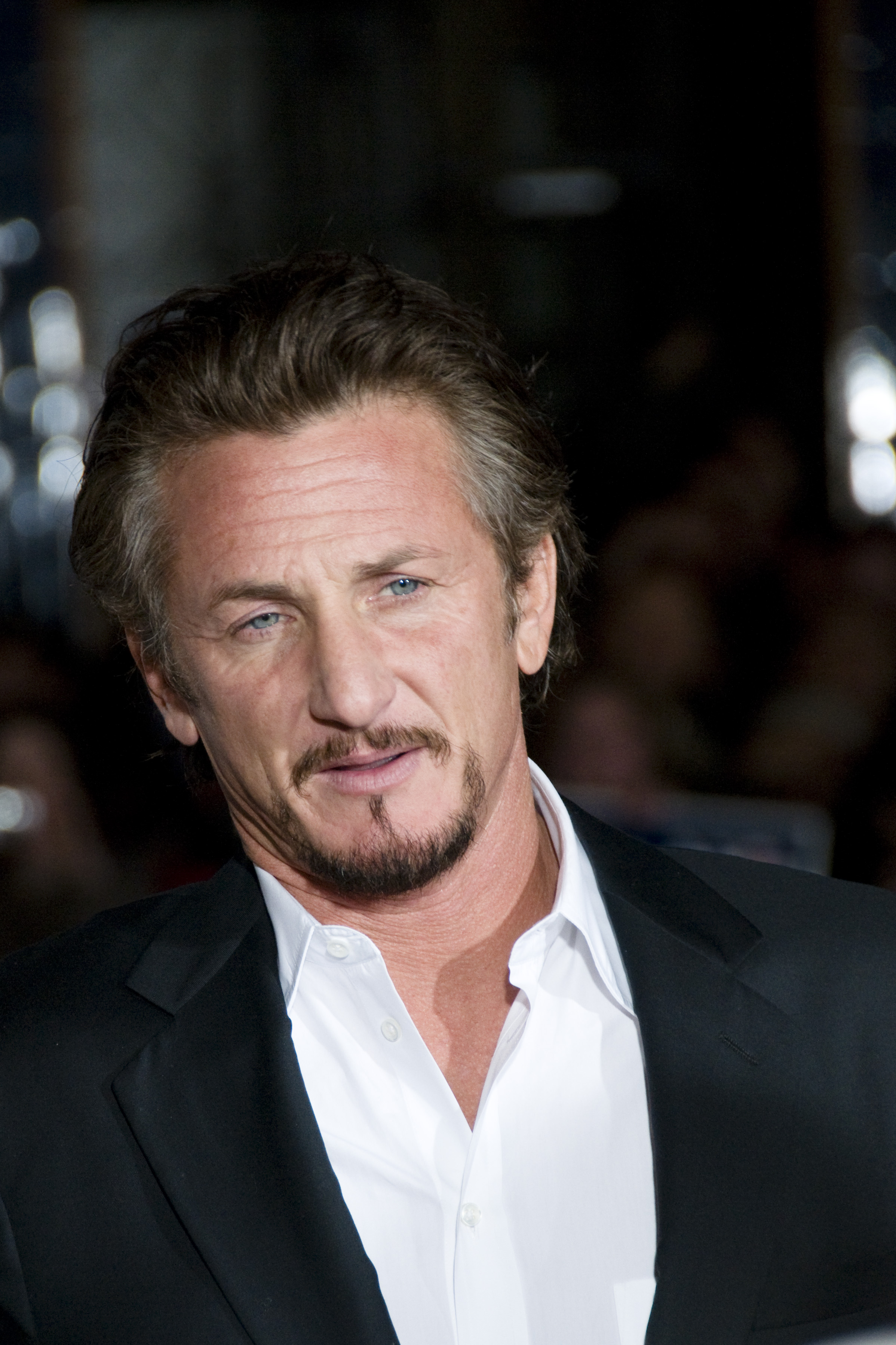 Sean Penn at the premier for Milk at the Castro Theatre in San Francisco, October 2008 depicted person: Sean Penn (age: 48.20)